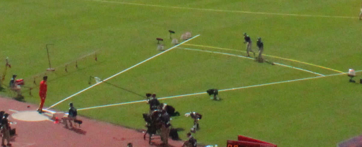 Shot put venue at London 2012 Olympics